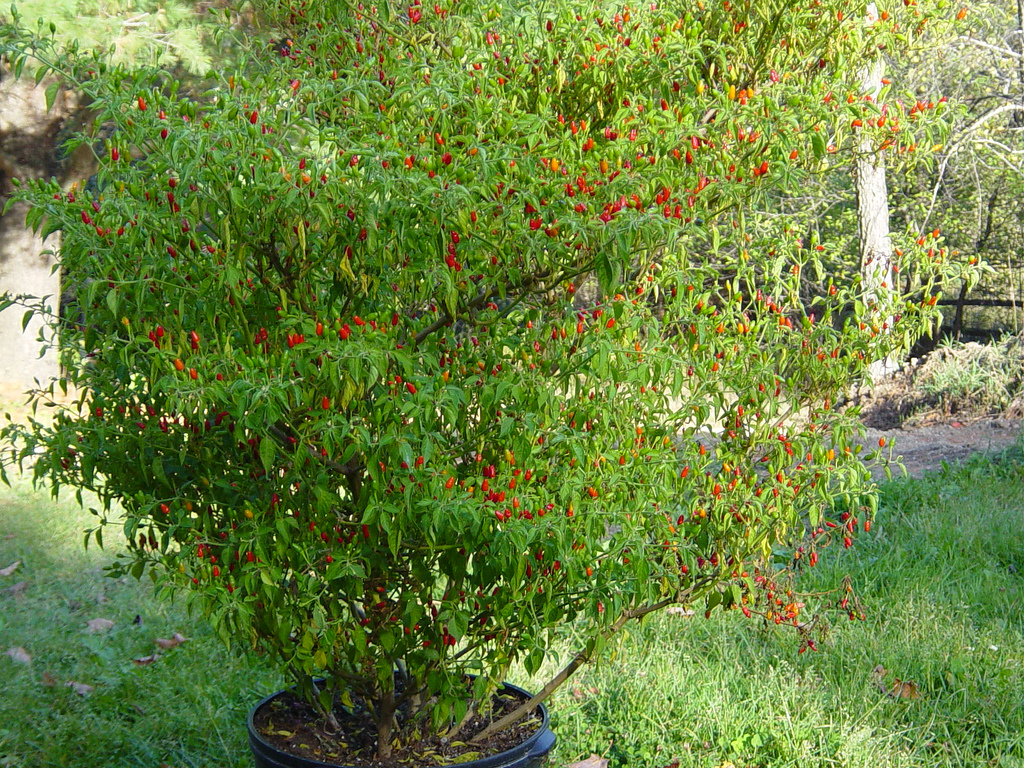 A piquin chili bush, with ripe fruits. Taken in Ontario, Canada, with a Sony Cybershot digital camera.